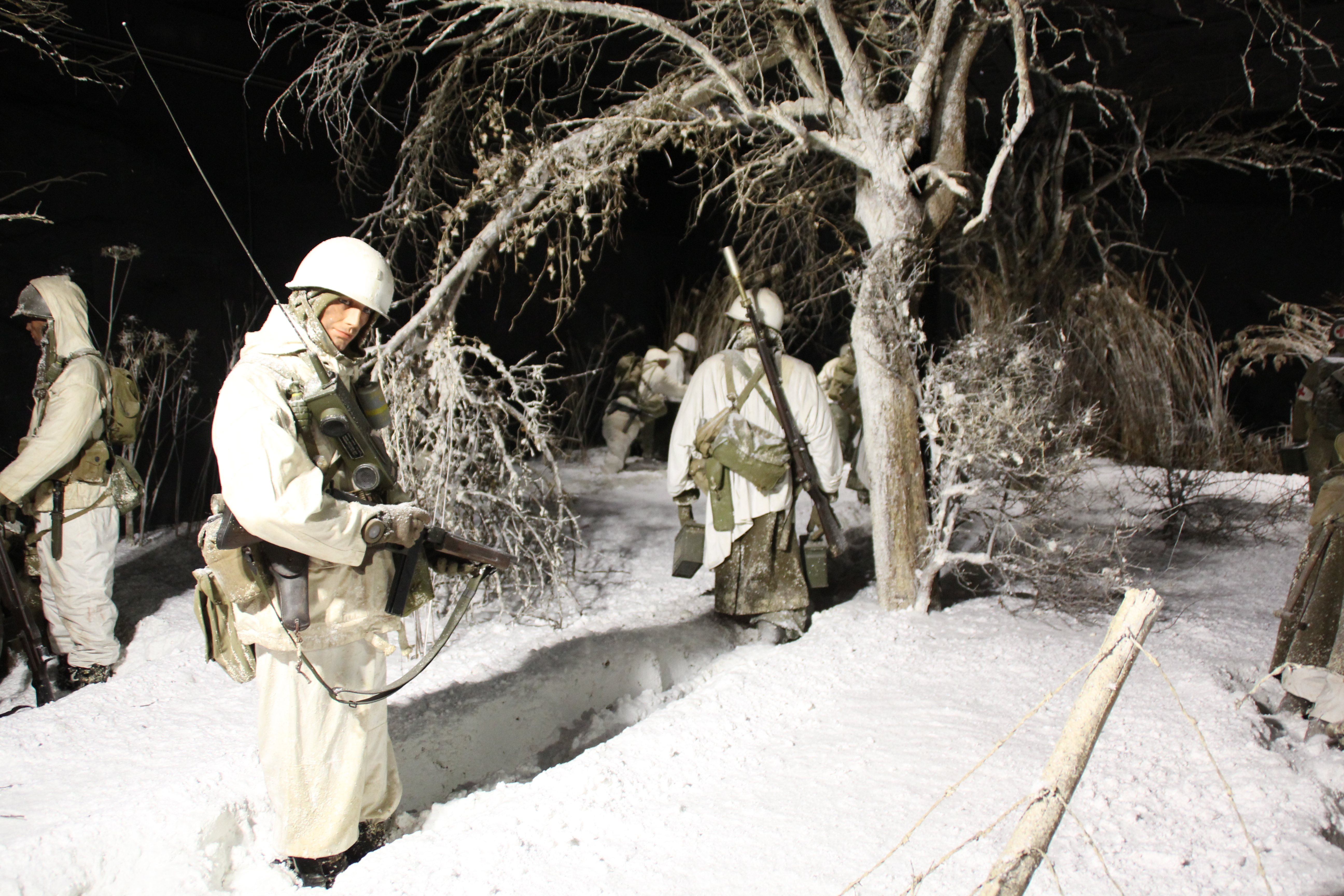 Diorama depicting the Allied crossing of the River Sauer during the Battle of the Bulge